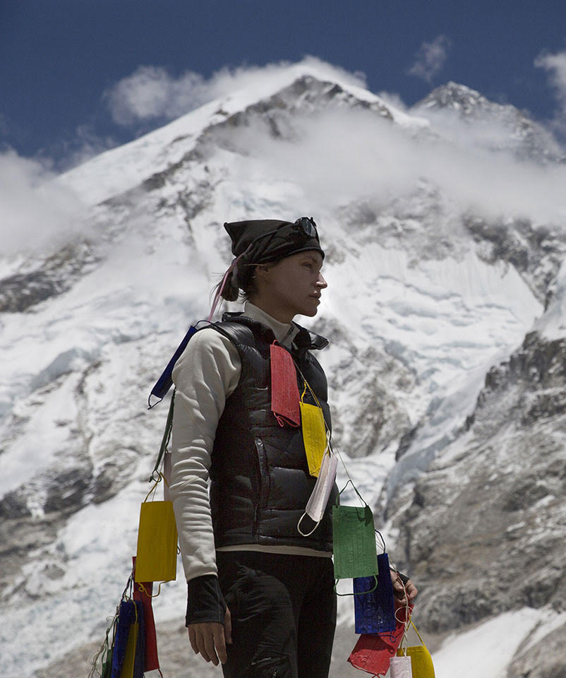 Anne de Carbuccia on location, creating a time shrine for her work "High Altitude Trash View of Everest", part of the work One Planet One Future.